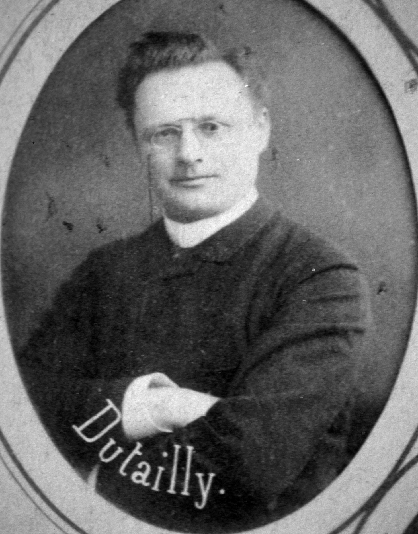 Portrait of French botanist Gustave Dutailly (1846-1906)